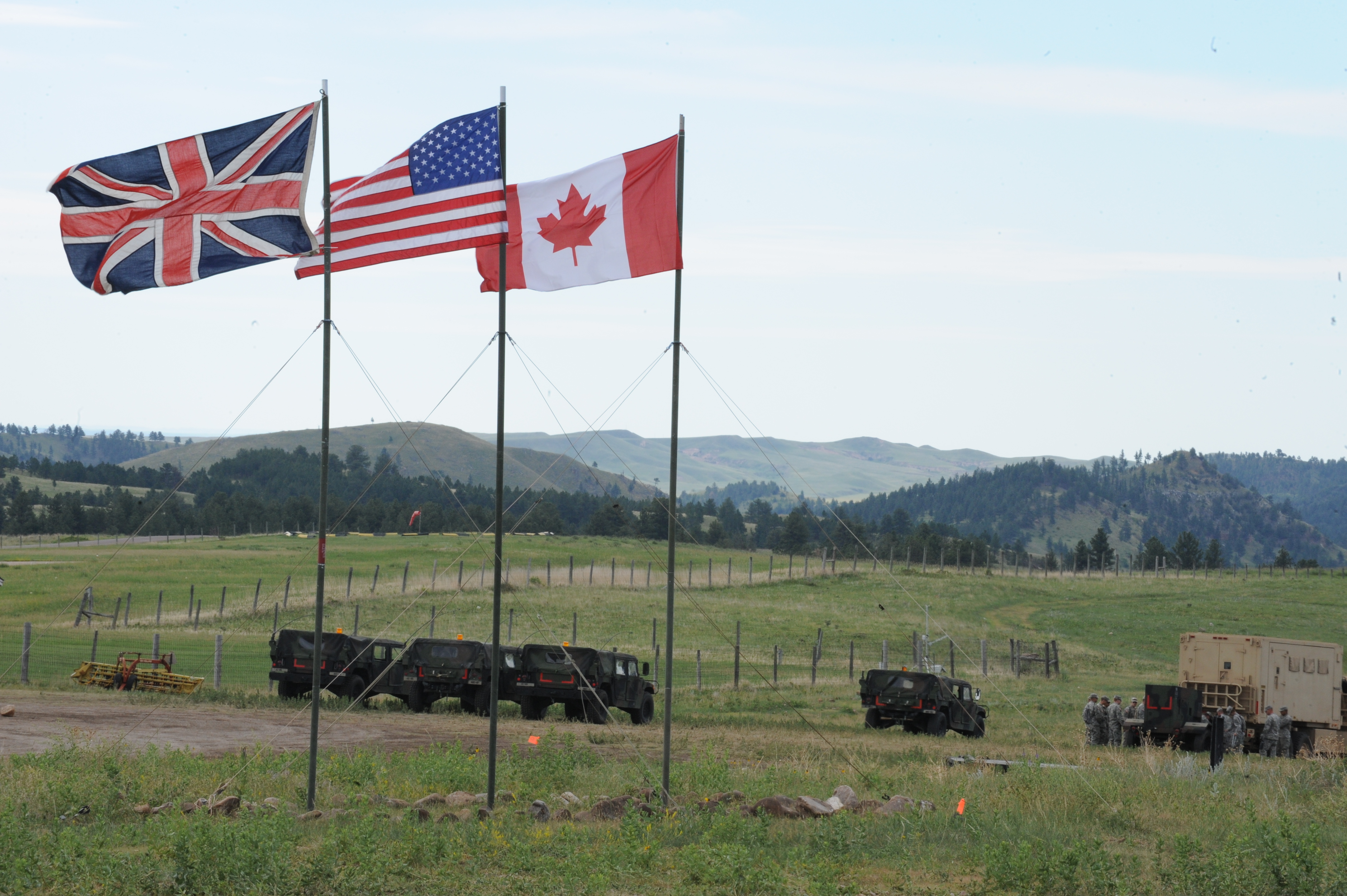 Flags from the United Kingdom, United States and Canada wave near the entrance to the South Dakota Army National Guard's Golden Coyote training site in Custer State Park in East Custer, S.D., June 17, 2012. A total of six foreign nations are participating in infrastructure projects to include road repair and maintenance, building repair and upgrades, timber clearing and hauling, rock quarry stabilization and more.